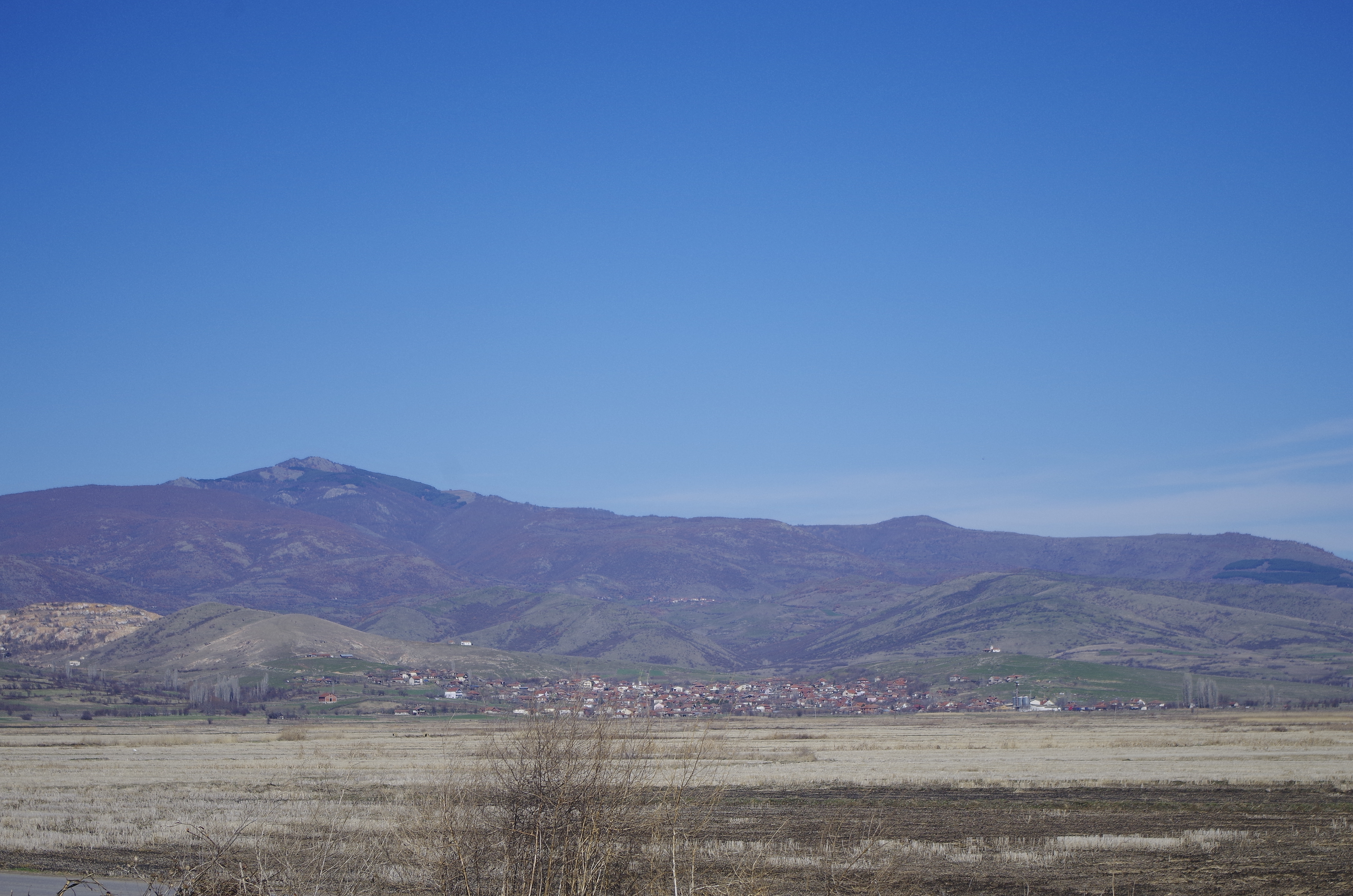 village of Spančevo, near Kočani, Macedonia